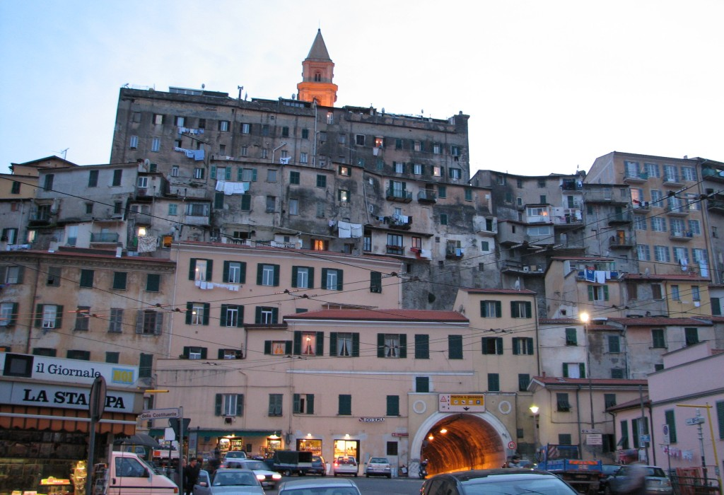 Ventimiglia, Italy, a view of the old town